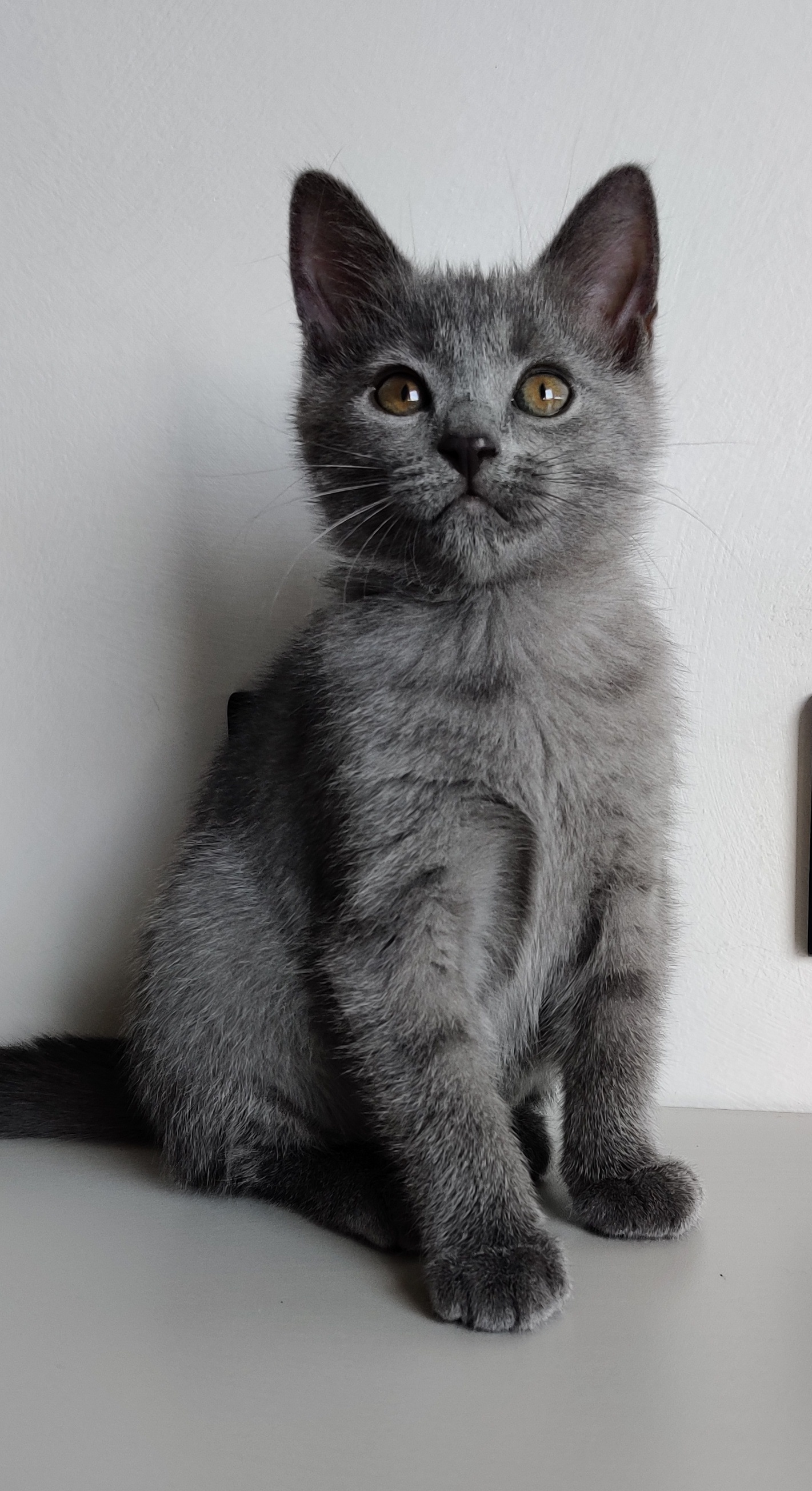 Chartreux Cat, Kitten 3 months old.